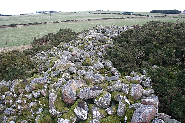 Cairn Catto The south-eastern end of the cairn, also described as a long barrow, which is 48 (or 49) metres long and tapers from 22 metres wide at the south-east end to 7 metres at the north-west end. It is quite hard to see whether the surrounding whins are obscuring part of the cairn or not. It may be 3000 to 4000 years old, and its likely purpose was as a burial site. The Arbuthnott Museum in Peterhead has two stones axes said to have been found here. Fuller details at and The cairn is well signposted from the nearby farm of Cairncatto, but parts of the path are overgrown with whins. Probably easier (and definitely shorter) to follow the other end of the path from the field gate at NK075422.